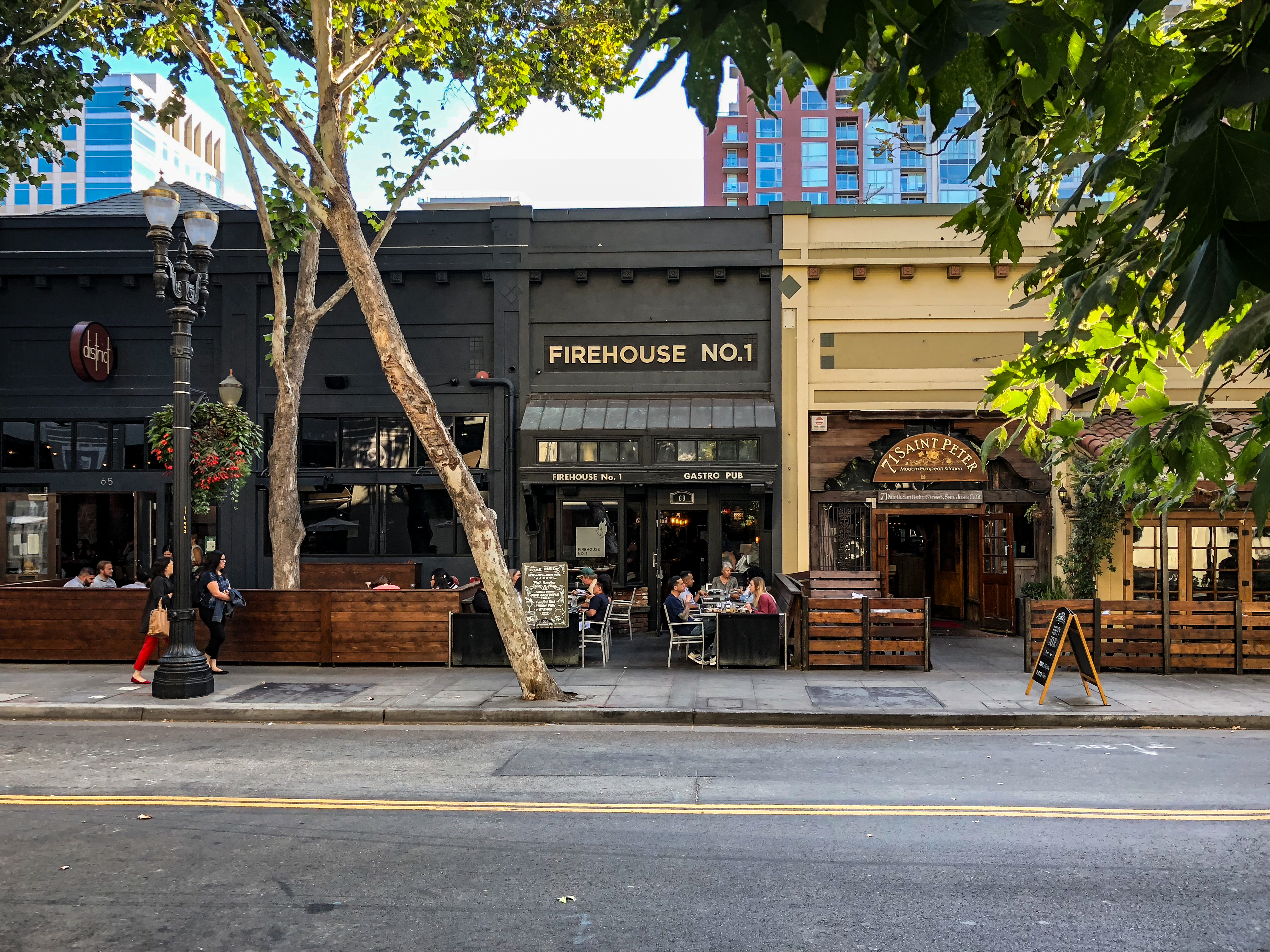 The Firehouse No. 1 gastro pub, a casual fine dining restaurant in Downtown San Jose's San Pedro Square in San Jose, California in the San Francisco Bay Area, on North San Pedro Street. To the right is 71 Saint Peter, a farm-to-table California European restaurant. On the left is the District Wine Whiskey and Cocktail bar. Patrons are dining at outdoor tables.